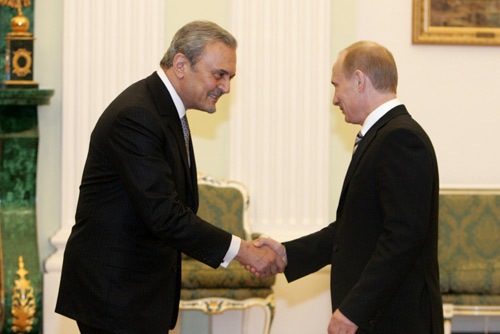 THE KREMLIN, MOSCOW. With the Saudi Arabian Foreign Minister Saud Al-Faisal.